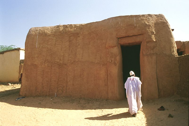 Traditional ancient architecture, Zinder, Niger